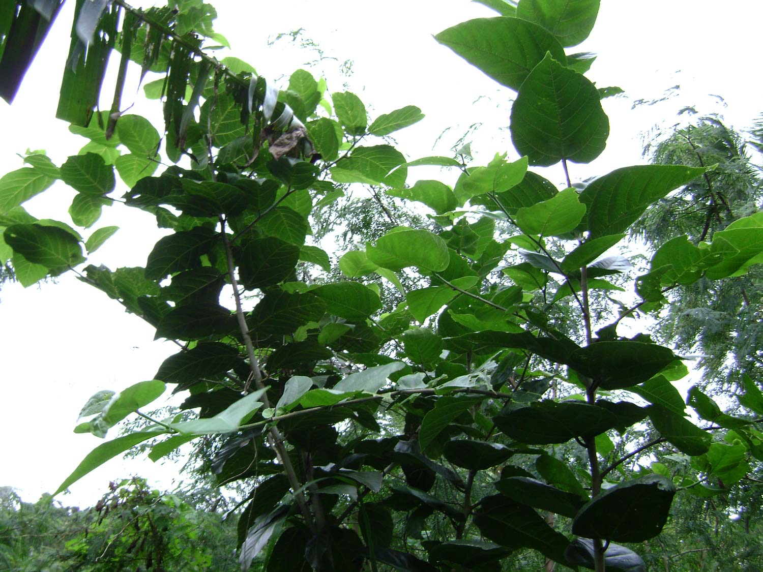 Grewia crenata, young tree, (foʻui) on Vavaʻu, Tonga